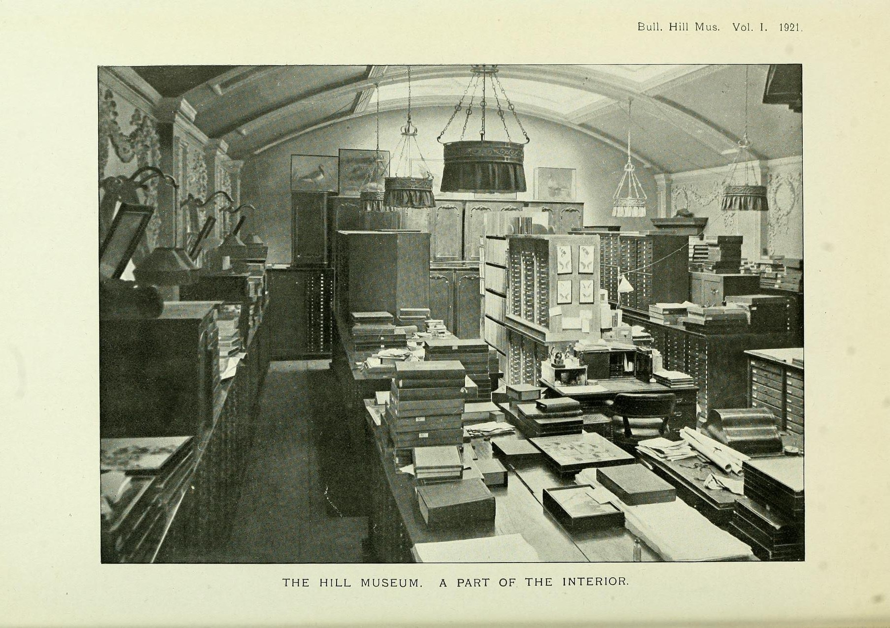 Hill Museum1921